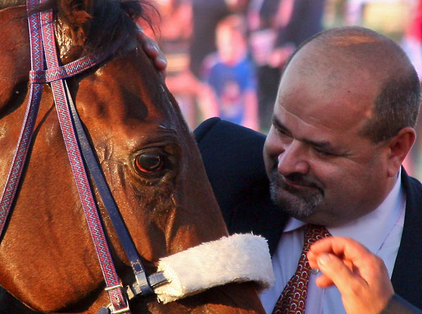 The hungarian undefeated champion racehorse, Overdose with Owner Zoltán Mikóczy.